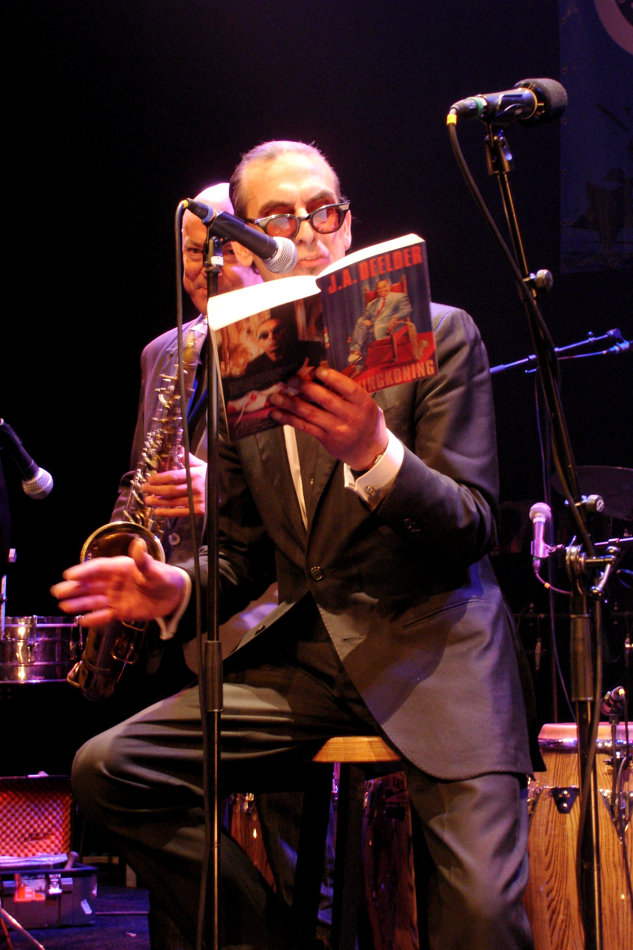 Jules Deelder en New Cool Collective, 2007.